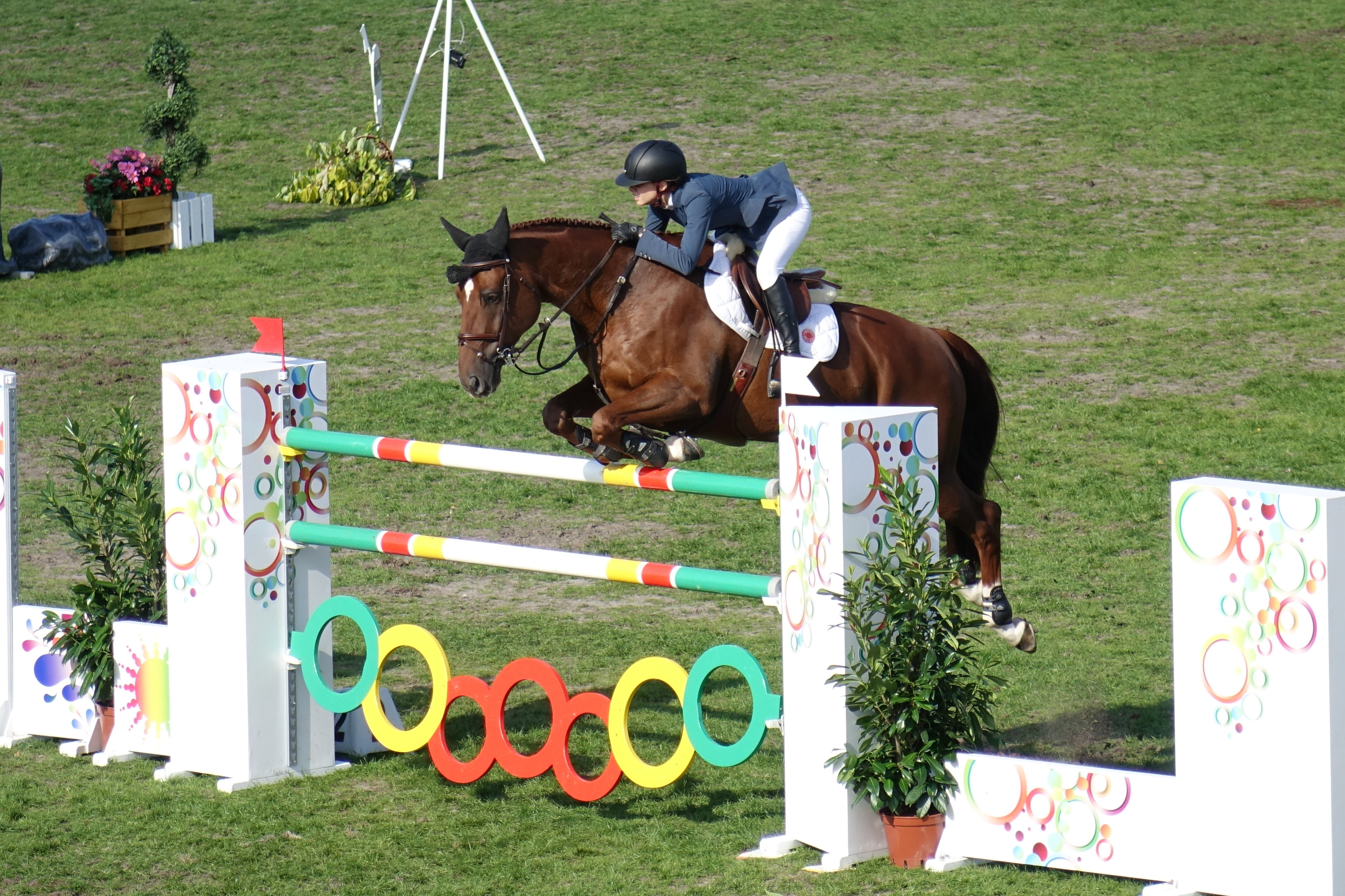 Alexandra Paillot and Polias de Blondel*Val Henry, French Jumping Championship "Master Pro" 2015 at Fontainebleau, France